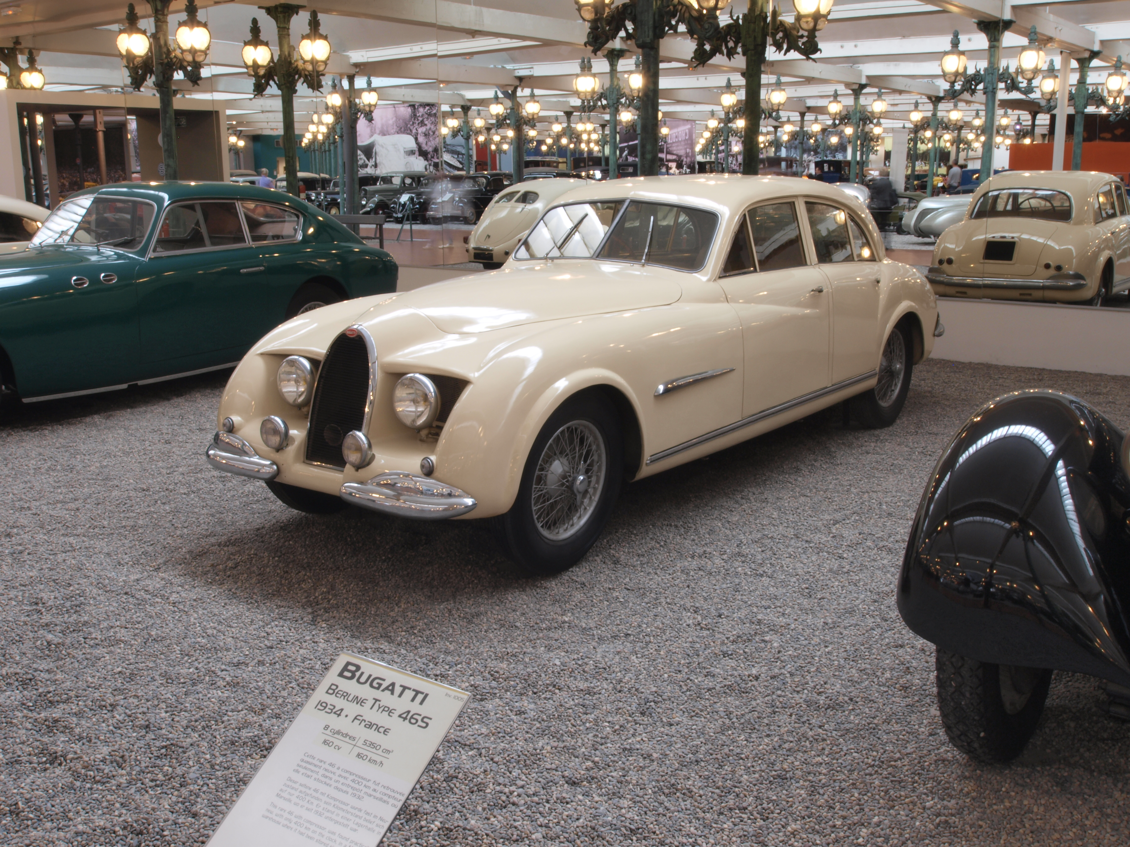 Bugatti Type 101 berline (1952), designed by Louis Lucien Lepoix (Country of origin: France). Photographed at the Cité de l’Automobile, France. OLYMPUS DIGITAL CAMERA